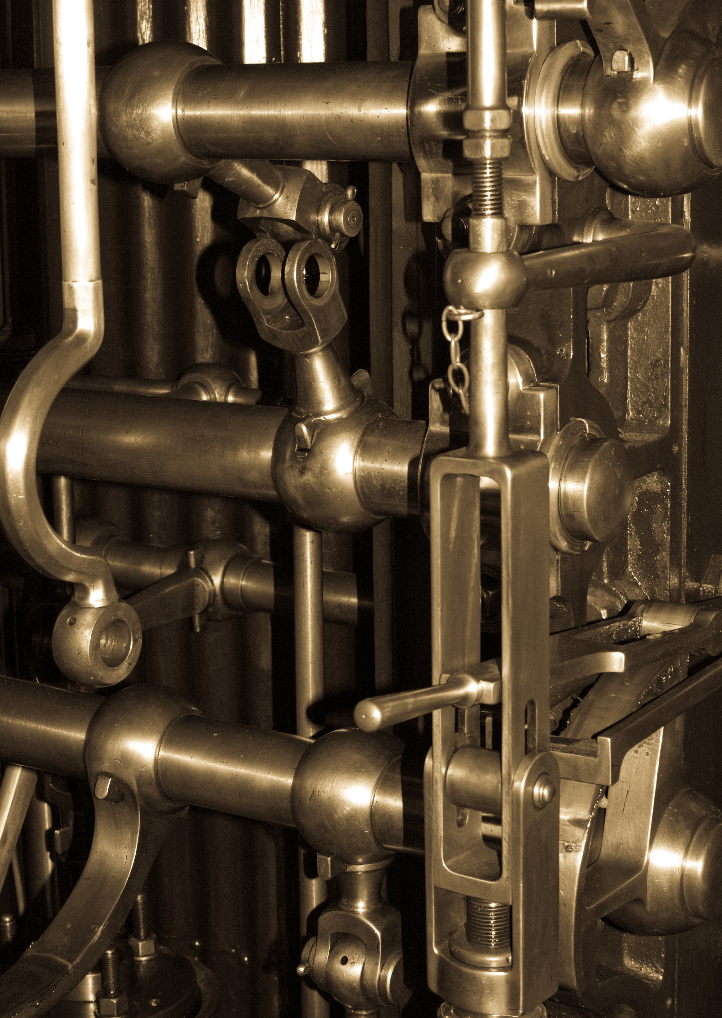 Machinery of the Maudslay Engine dating to 1838 at the Steam Museum in Kew, London